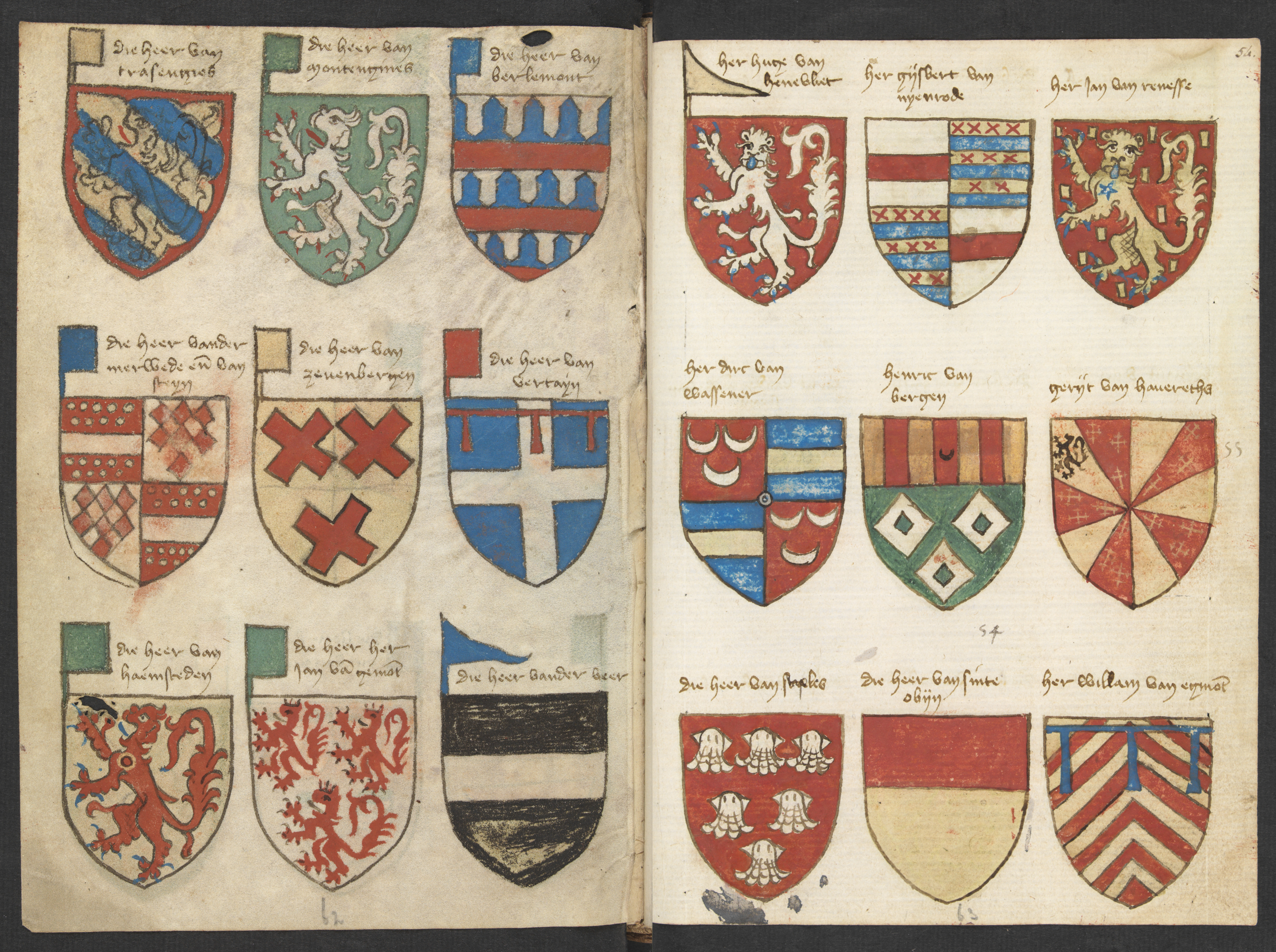 Lefthand side folio 053v; righthand side folio 054r from the Beyeren armorial / Wapenboek Beyeren